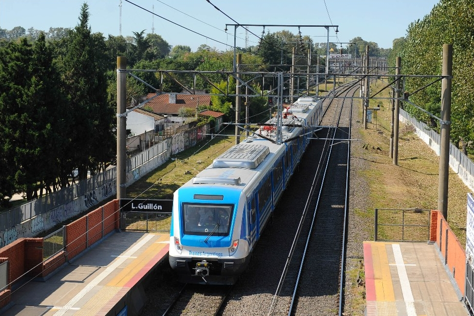 Roca Line CSR multiple unit at Luis Guillón station.